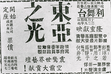 also named The Light of East Asia.